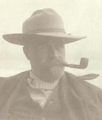 John Calvin Stevens (1855-1940), architect (photograph detail)